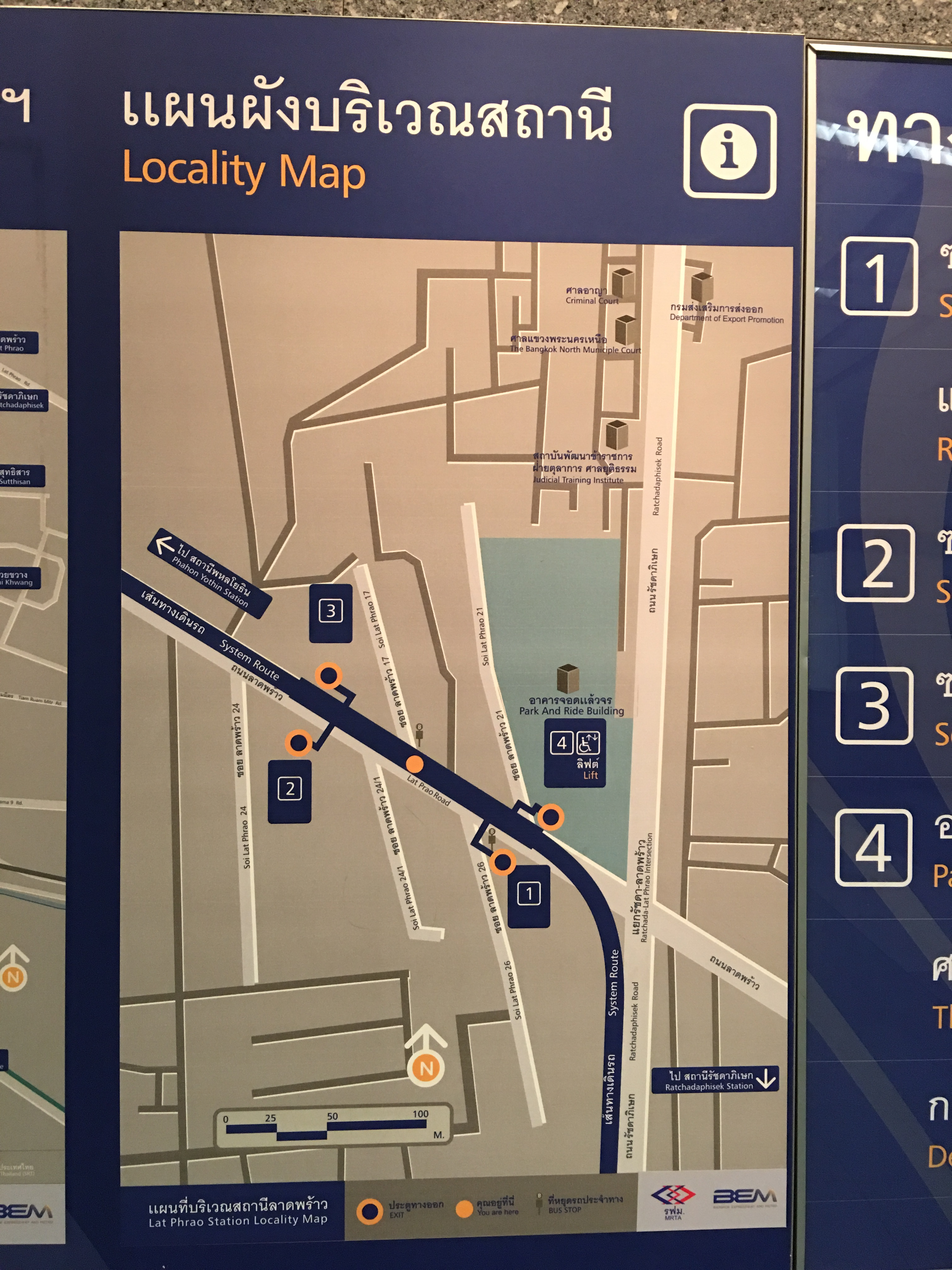 The locality map of Lat Phrao Station